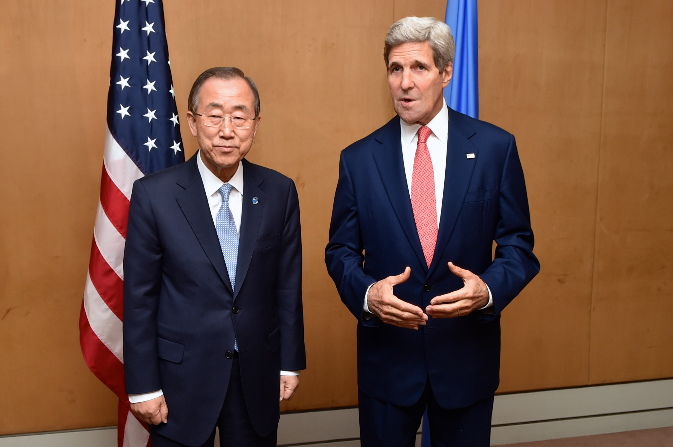 United Nations Secretary-General Ban Ki-moon listens as U.S. Secretary of State John Kerry addresses reporters in Cairo on July 21, 2014, before they sat down to talk about their mutual efforts to support a cease-fire between Israel and Hamas amid conflict in Gaza. [State Department photo/ Public Domain]